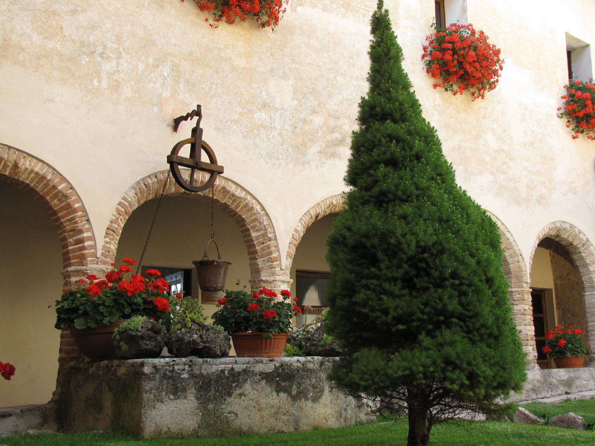 Franciscan sanctuary of La Foresta, Rieti (Lazio, Italy)